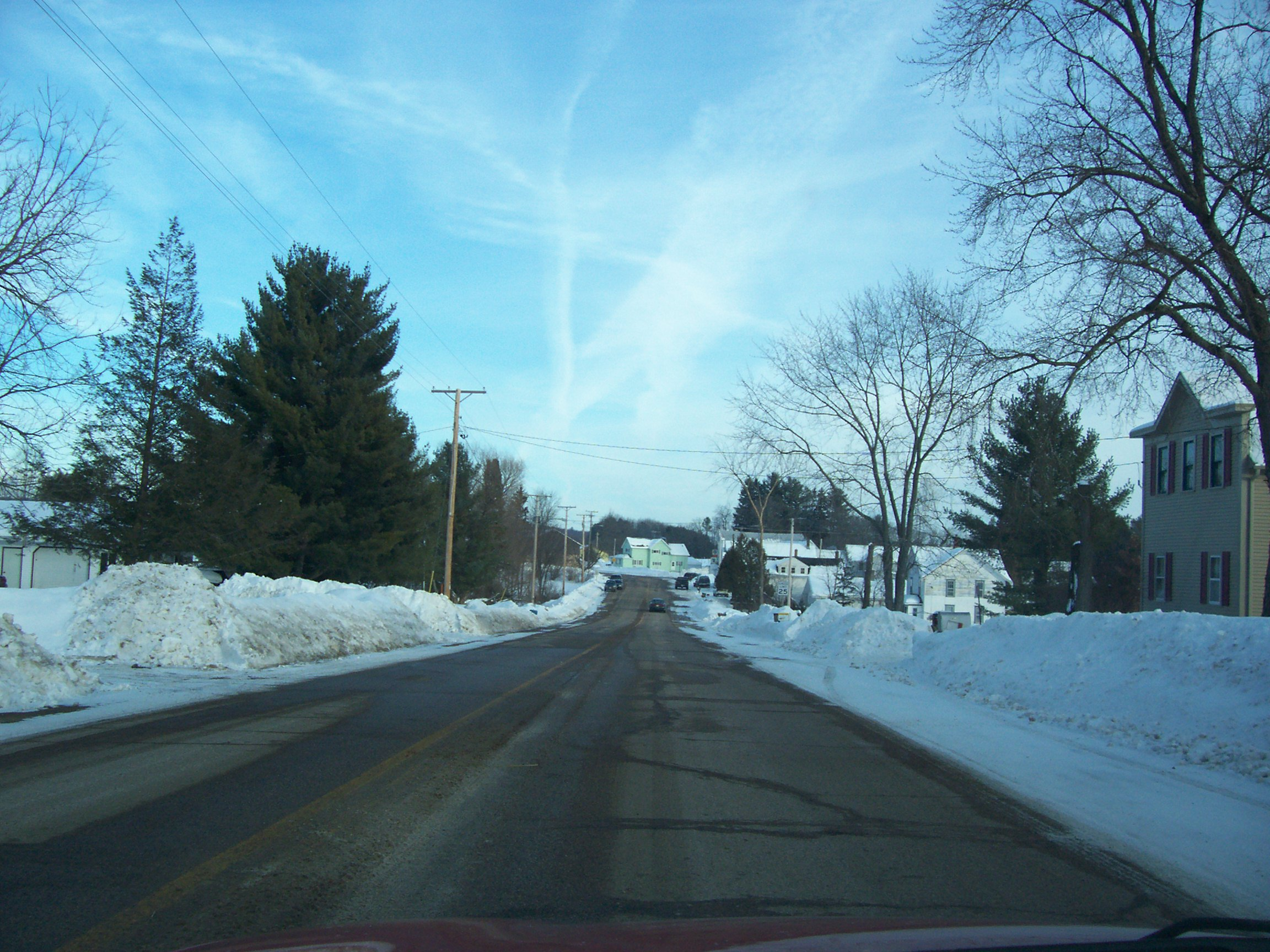 Looking at Pella, Wisconsin. Taken while traveling southeast on County Highway D.